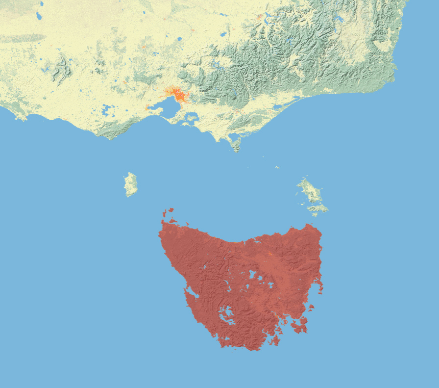 The Distribution of the Eastern Quoll According to the IUCN